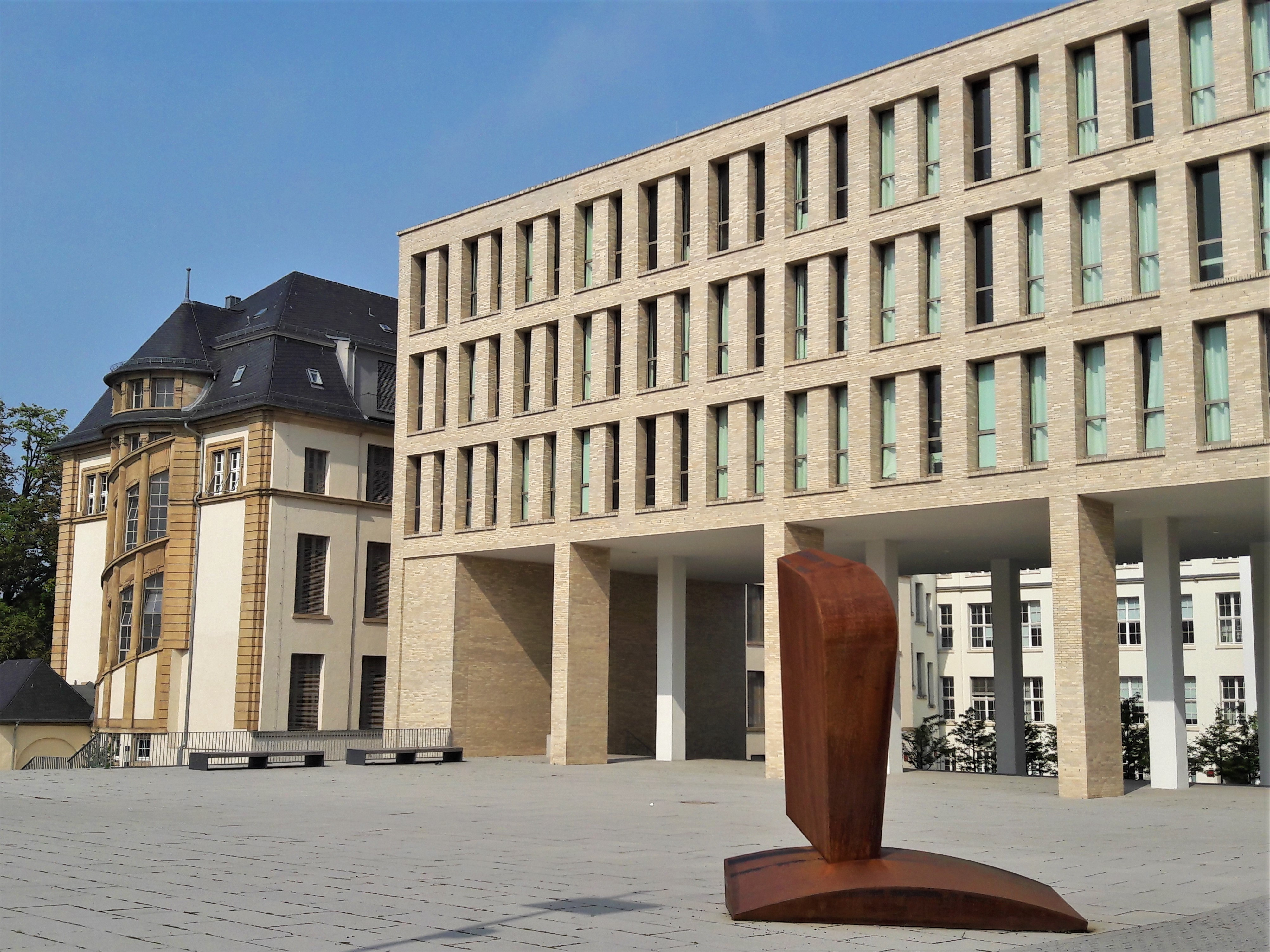 Darmstadt University of Technology, TU Darmstadt, Campus Square, City Campus, University Library, Wickop Building, Scultpure "Bueste" by Franz Bernhard